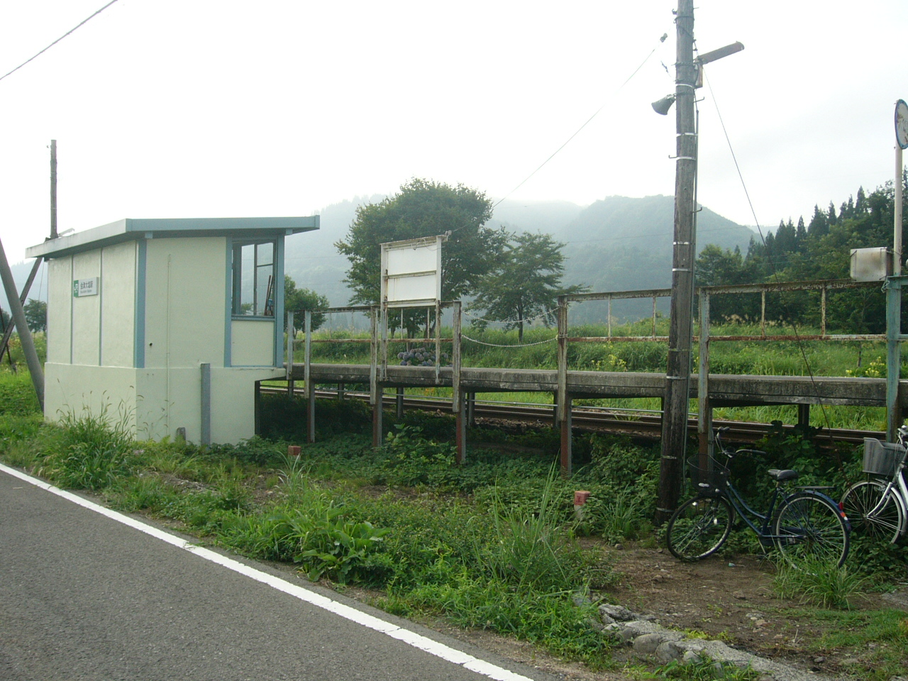 Aizu-Oshio Station